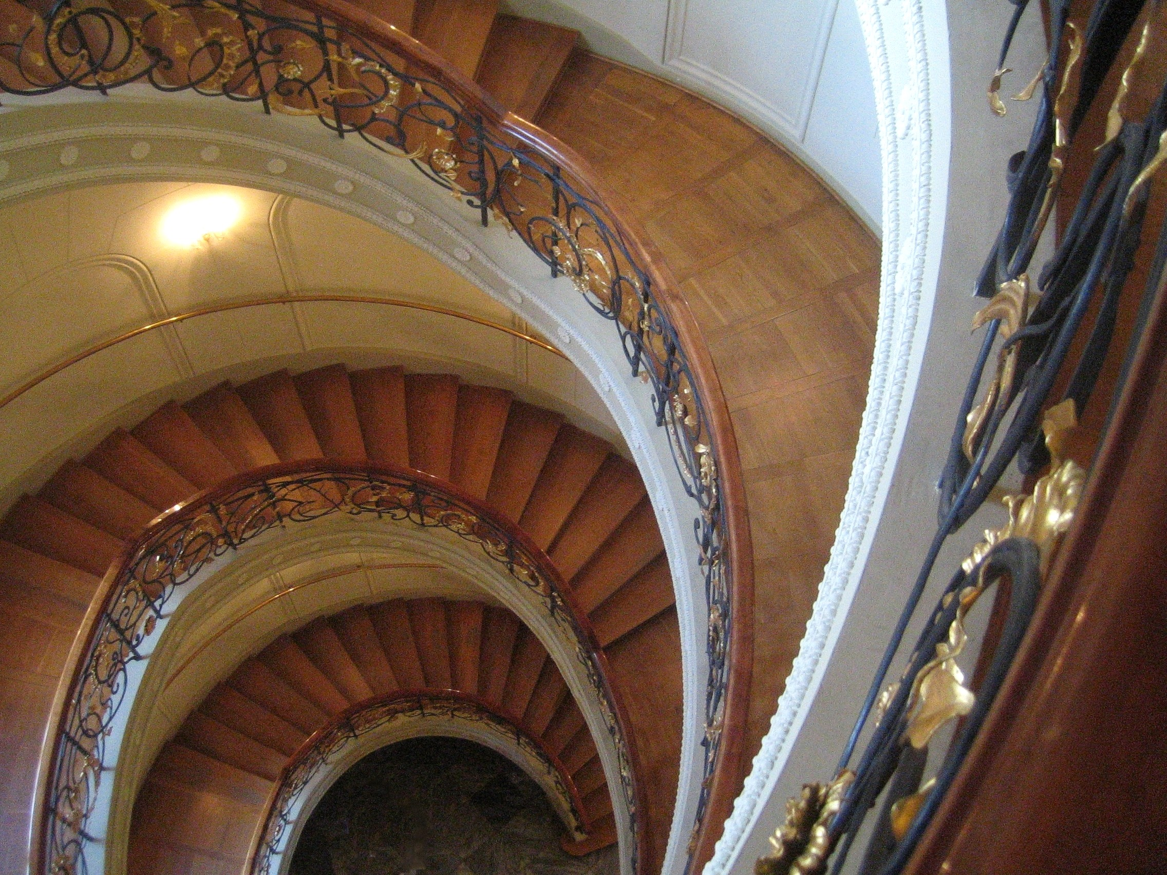 Staircase in the "Ephraim-Palais", a famous 18th-century-building in Berlin.